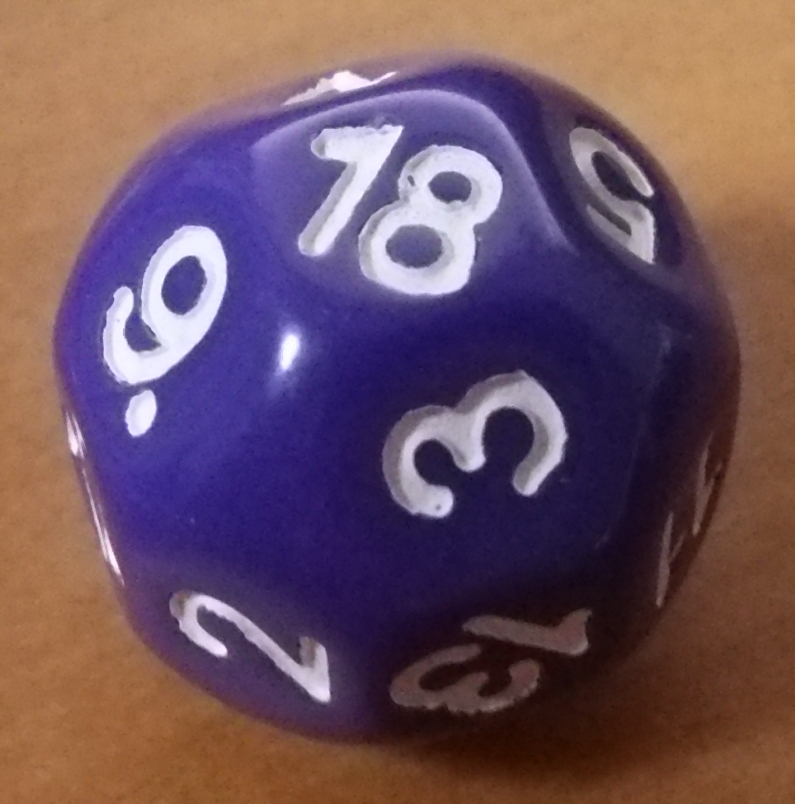 rhombicuboctahedron dice